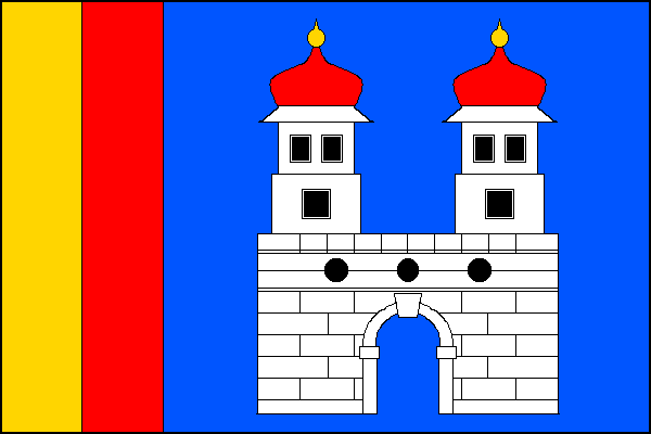 Municipal flag of Kravaře village, Česká Lípa District, Czech Republic